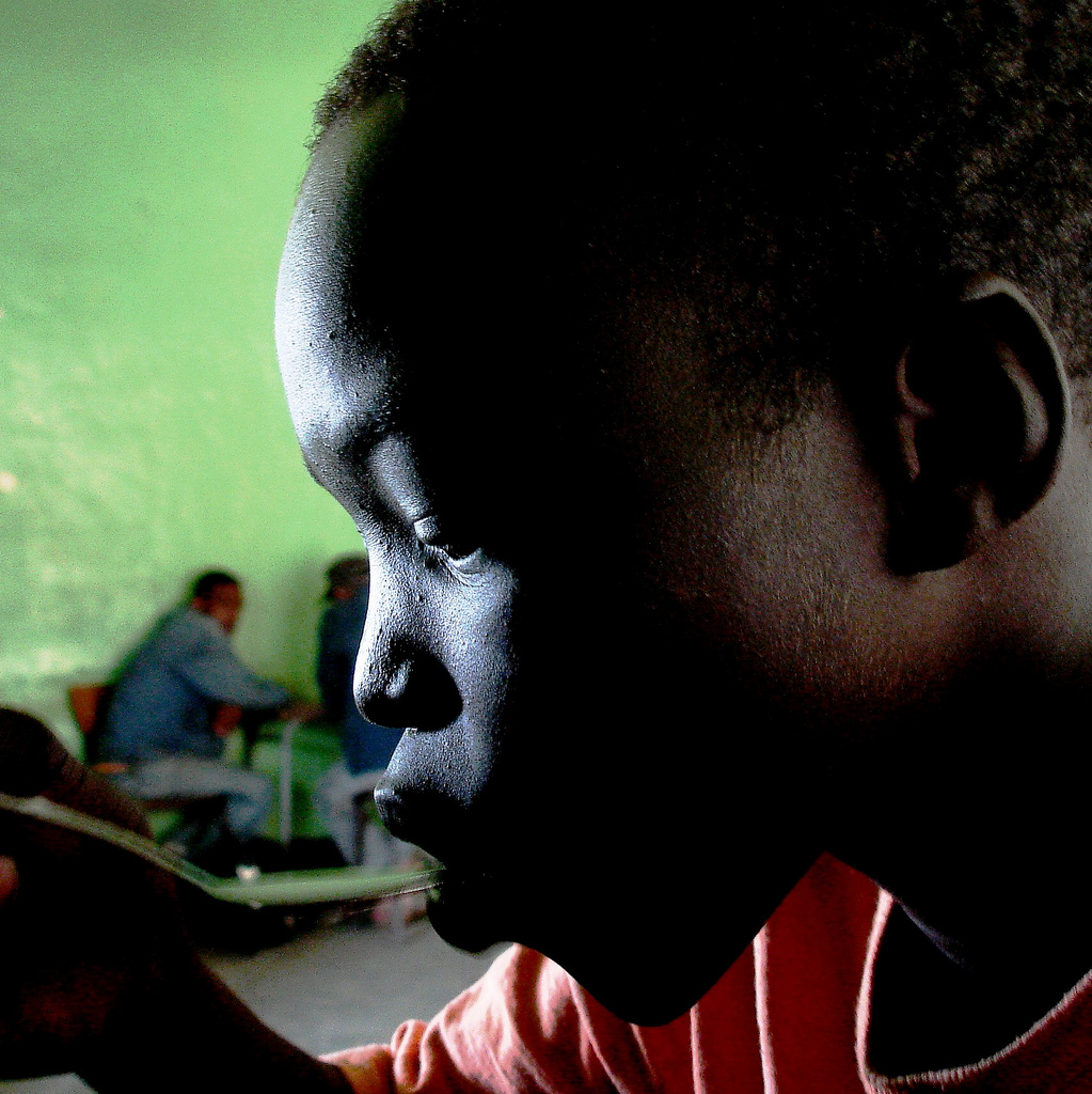 Nuer boy. ""Hi!" said Odjay when we arrived there. He had a soft voice and a clever smile, of that kind you would trust him at first sight. He lives here in Gambella since, since. He did not remember. At least since the refugee camp was closed and burnt to the ground. He fleed to Gambella. With a brother, he says. He also says he is 14. He must be less. The parents supposely returned to Sudan. To Malalakal, for the census. Another day they are in an other refugee camp... Odjay is the son of Gambella. He is a Sudanese Nuer but doesn't have any ID. It burnt with the camp. When he is asked to return, he asks "Where?". When he is asked what he would like to do, he says "camp manager". It was the job of the last 30 years and perhaps the job of the future. Is this kid the cause of all the problems of Gambella?"